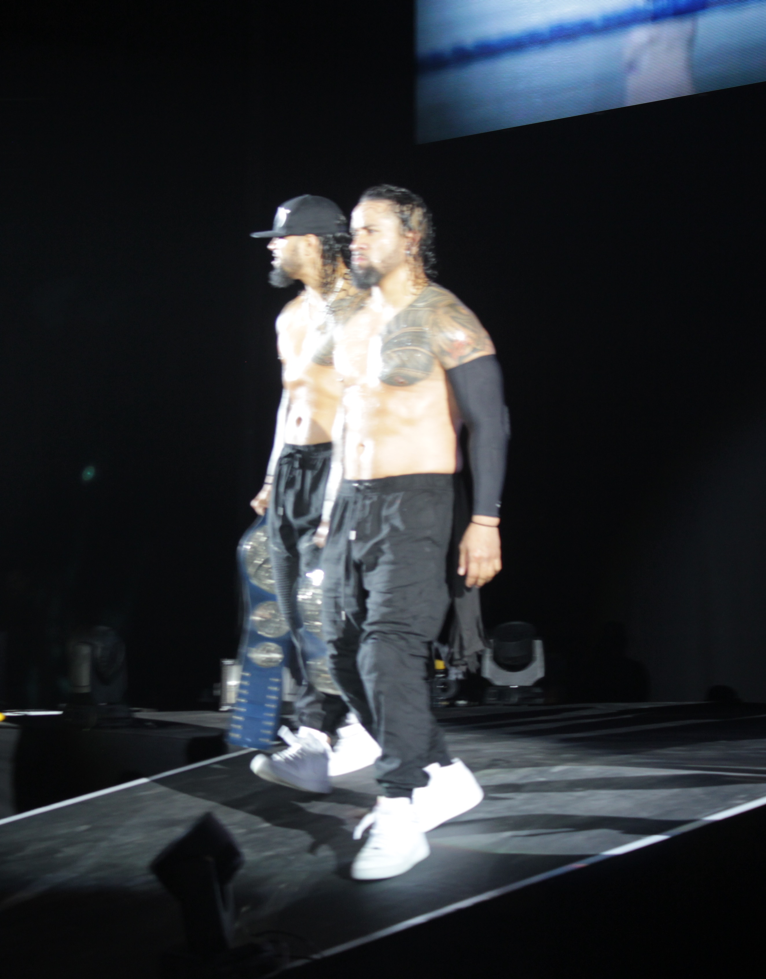 The Usos as the SmackDown Tag Team Champions